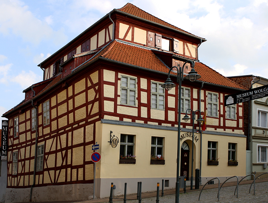 The City Museum of Wolgast, Mecklenburg-Vorpommern, Germany